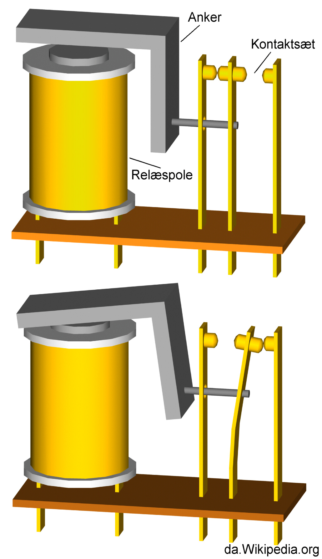 Shows the working of a relay